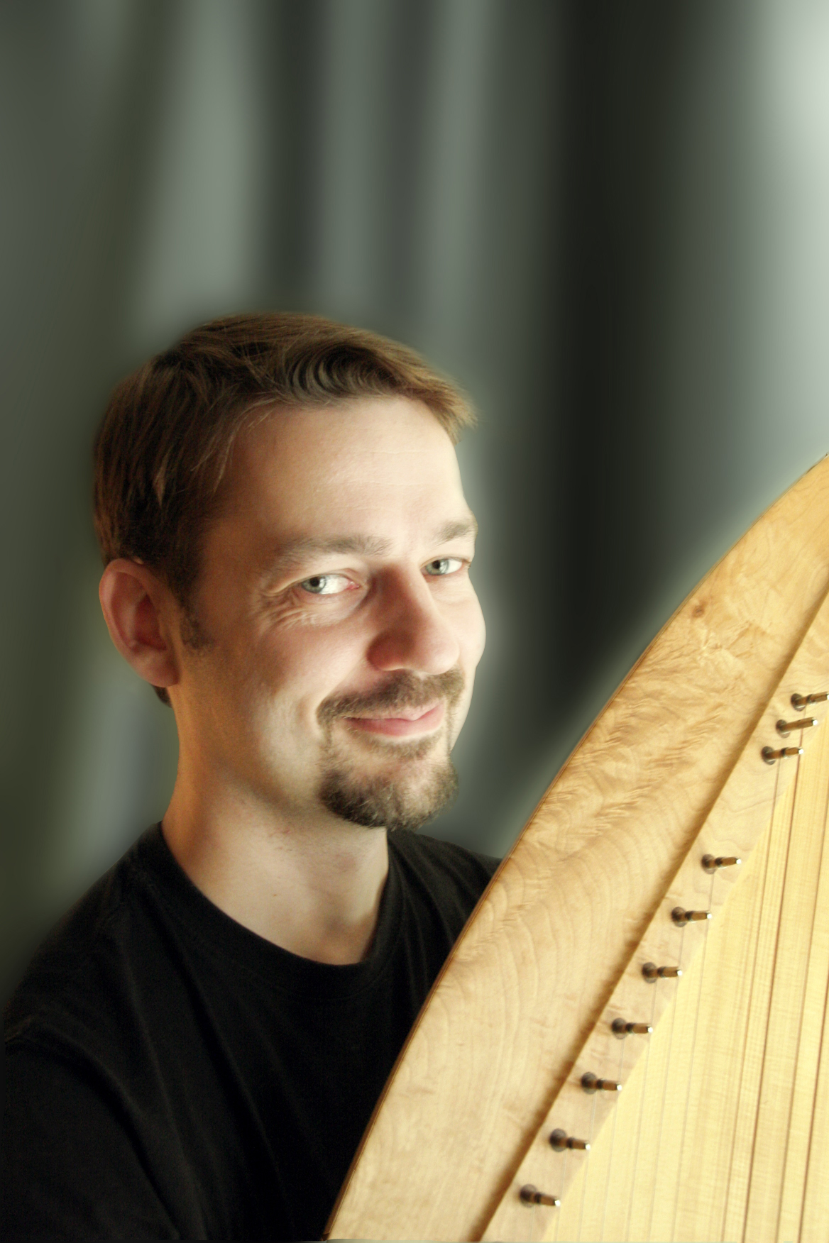 Timo Väänänen (1970–), Finnish kantele musician and the head editor of the Kantele Magazine. The kantele in the photo is designed by Ilari Ikävalko (1970–).